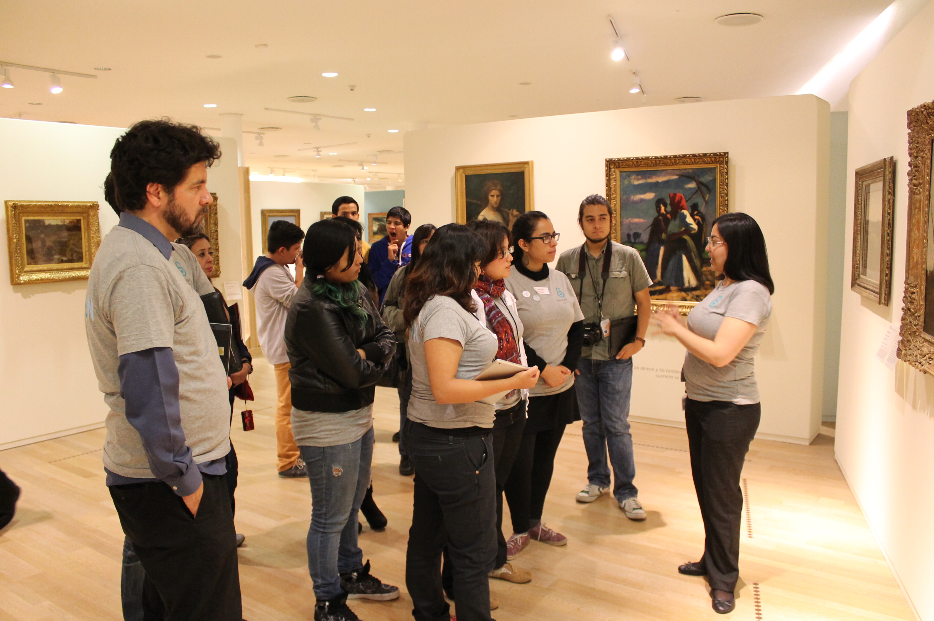 The Open Soumaya Editathon 50 hours of art was an event with the objective of edit Wikipedia for 50 continuous hours on the artists and collections that preserves the Soumaya Museum.